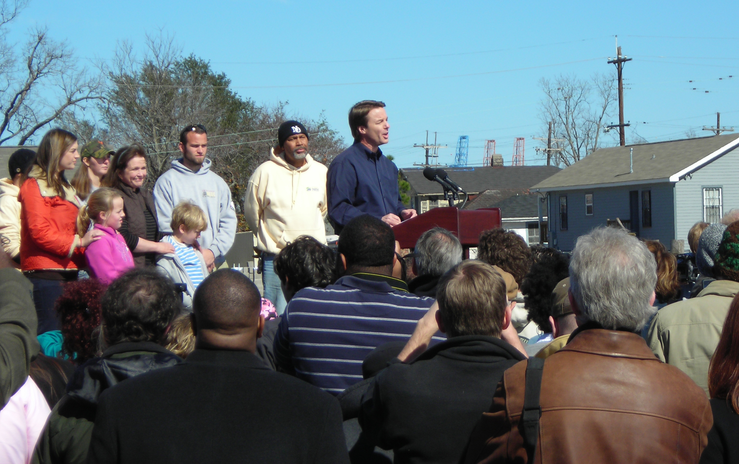 John Edwards announcing his withdrawal from the United States presidential race. Speech was given at the Musicians' Village in the 9th Ward in New Orleans.